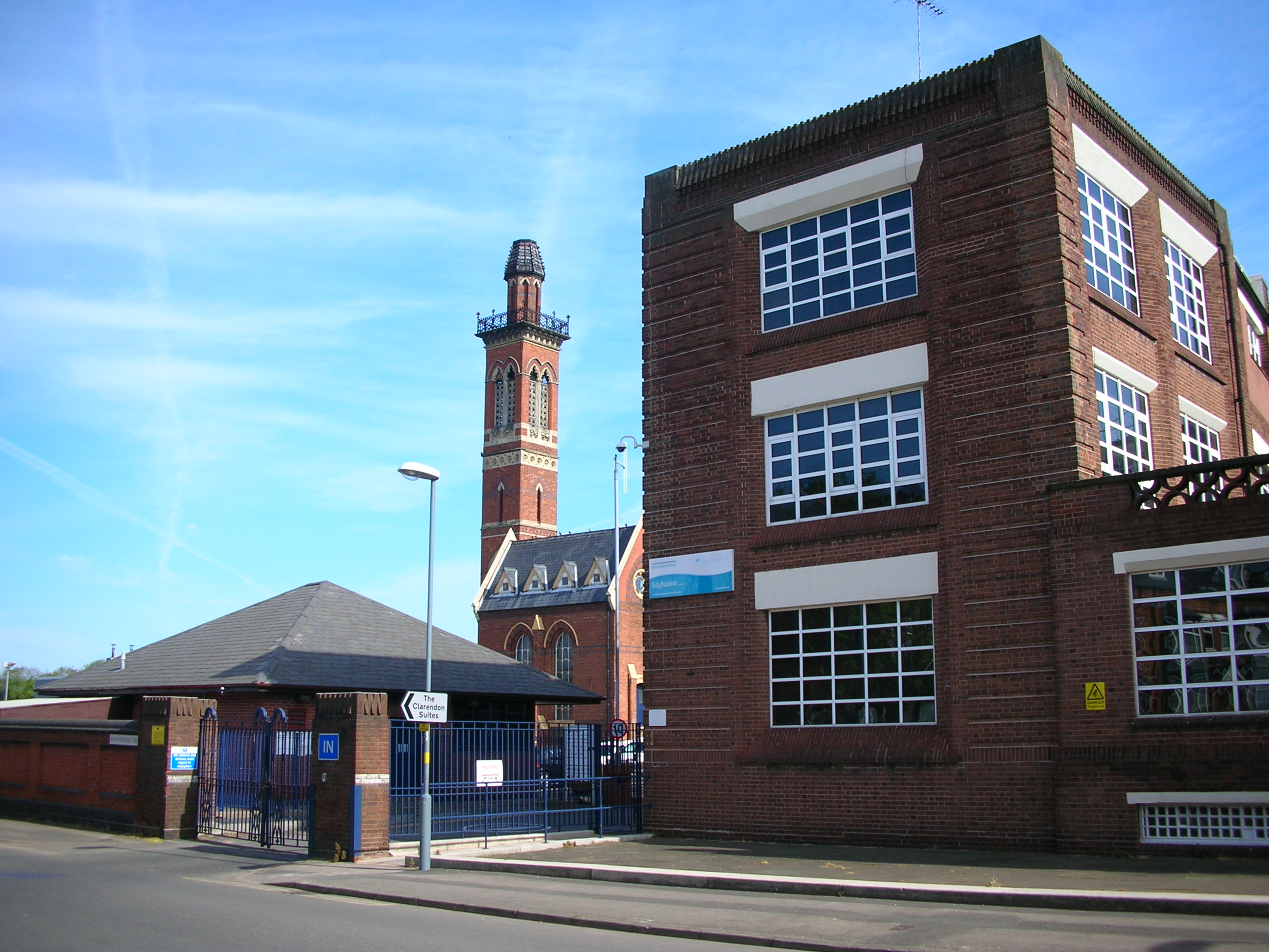 Edgbaston Waterworks, Birmingham, UK, photographed 6th May 2006 at 0945. A better photograph of the tower could be taken from further to the left on a sunny afternoon. Oosoom